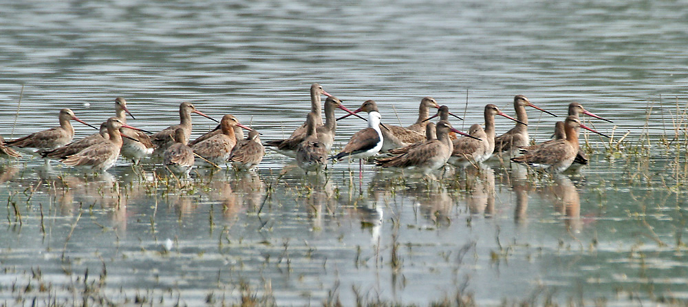 Black-tailed Goodwit Limosa limosa at Sultanpur National Park in Gurgaon District of Haryana, India.